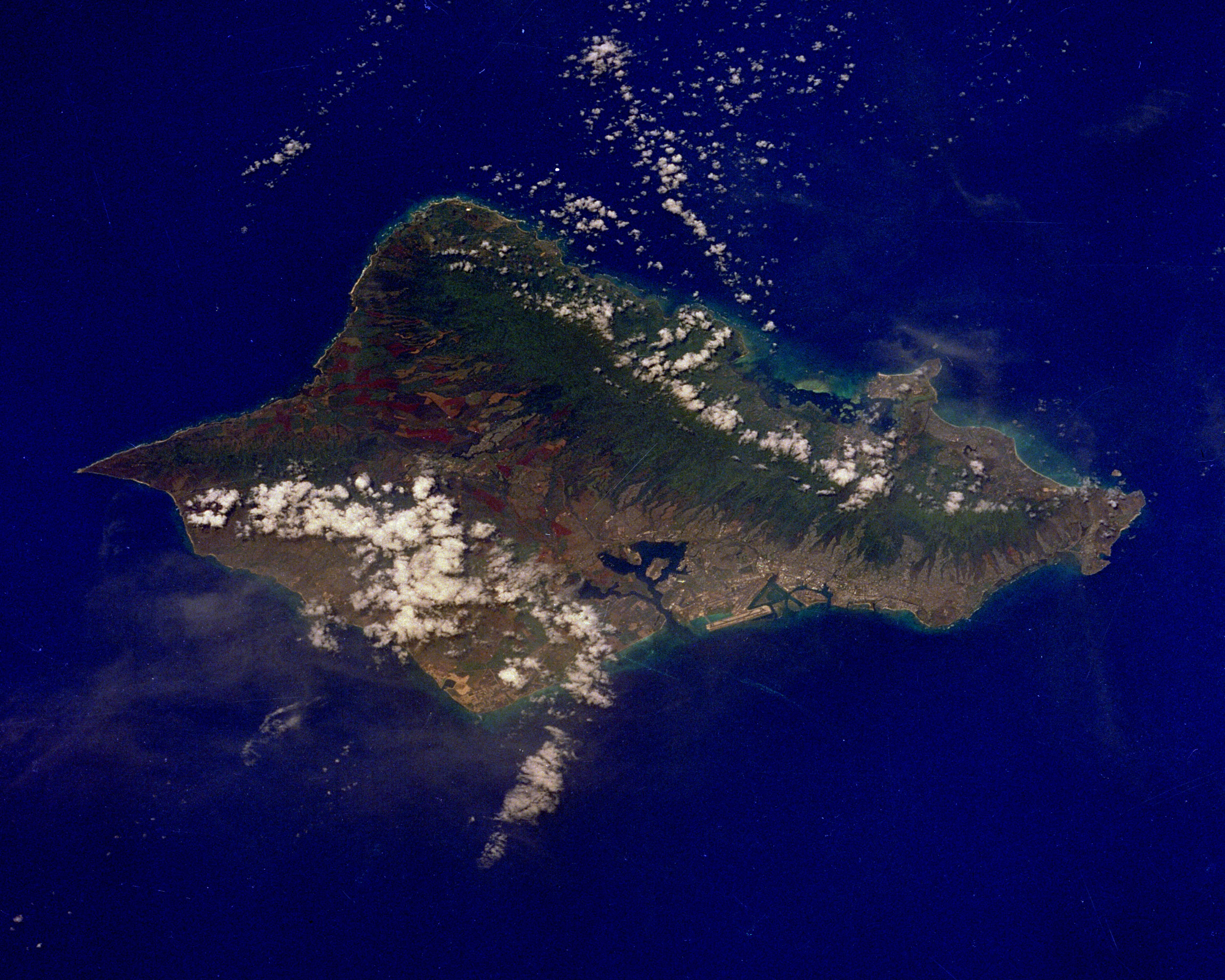 Satellite picture of Oahu (Hawaii)